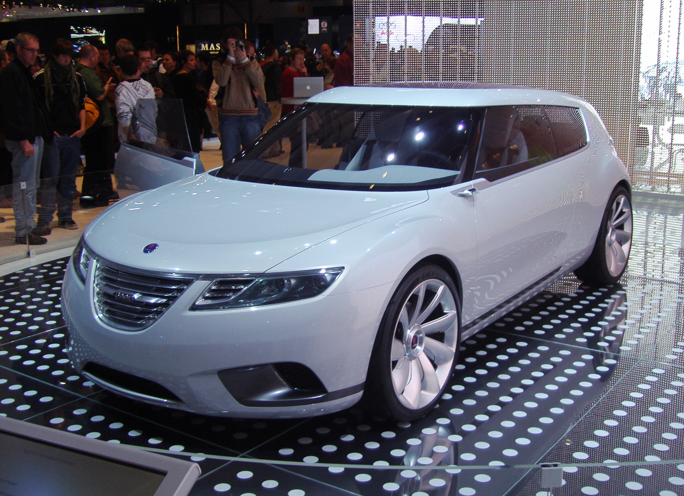 Saab 9-X BioHybrid at the 2008 Geneva Motor Show